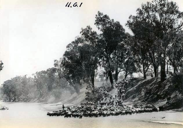 Droving cattle across the MacIntyre River from Queensland into New South Wales, Goondiwindi Dated: No date Digital ID: 12932-a012-a012X2444000097 Rights: We'd love to hear from you if you use our photos. Many other photos in our collection are available to view and browse on our website using Photo Investigator.